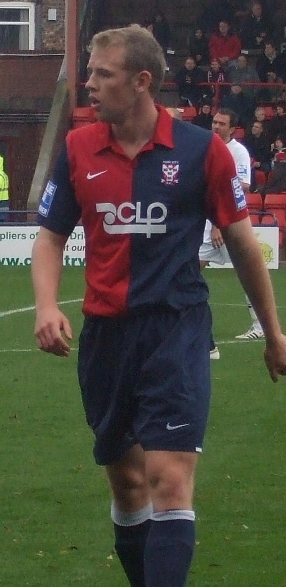 Ben Wilkinson playing for York City against Mansfield Town at Bootham Crescent, York on 25 October 2008